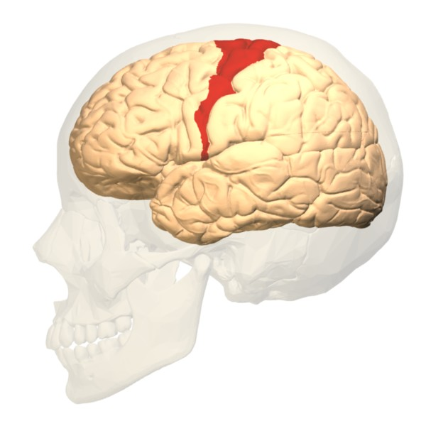 Brodmann areas 4. Primary motor cortex.